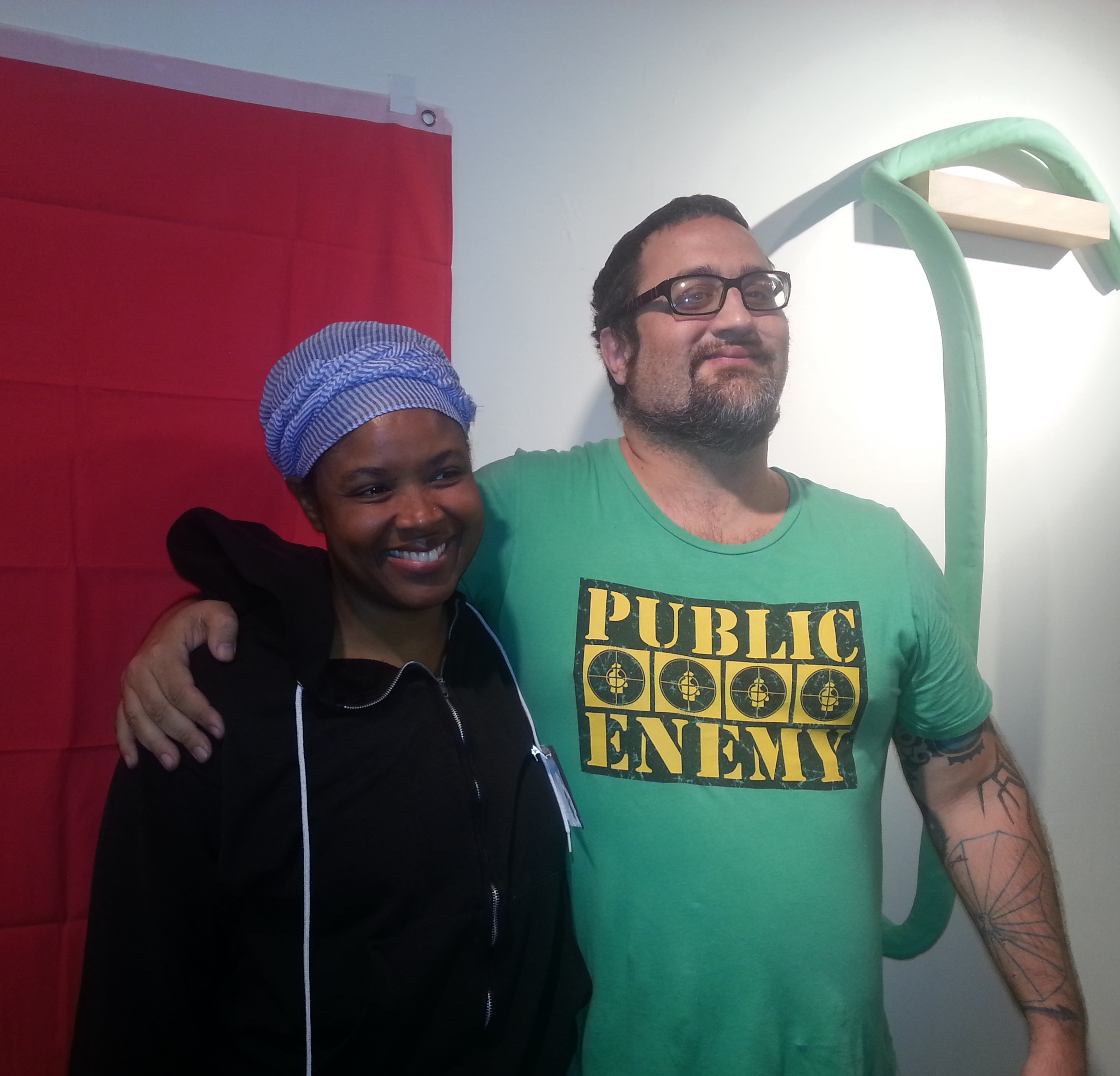 Campaign photo of Mimi Soltysik and Angela Walker, the Socialist Party USA's 2016 presidential ticket